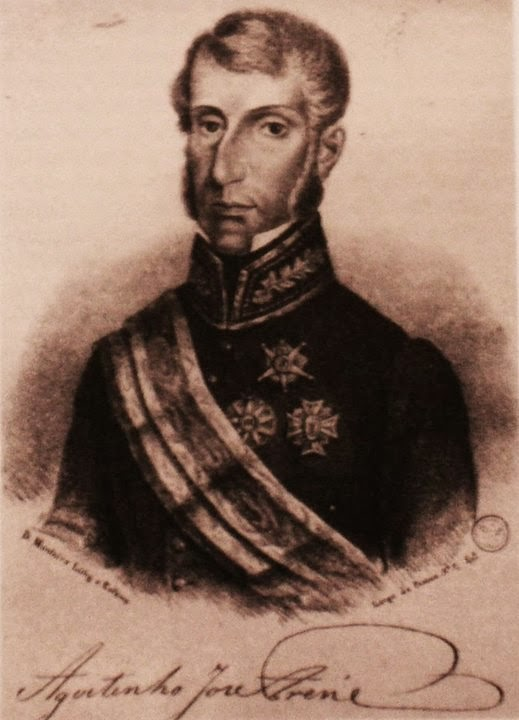 Agostinho José Freire (1780-1836), Portuguese military officer and politian.